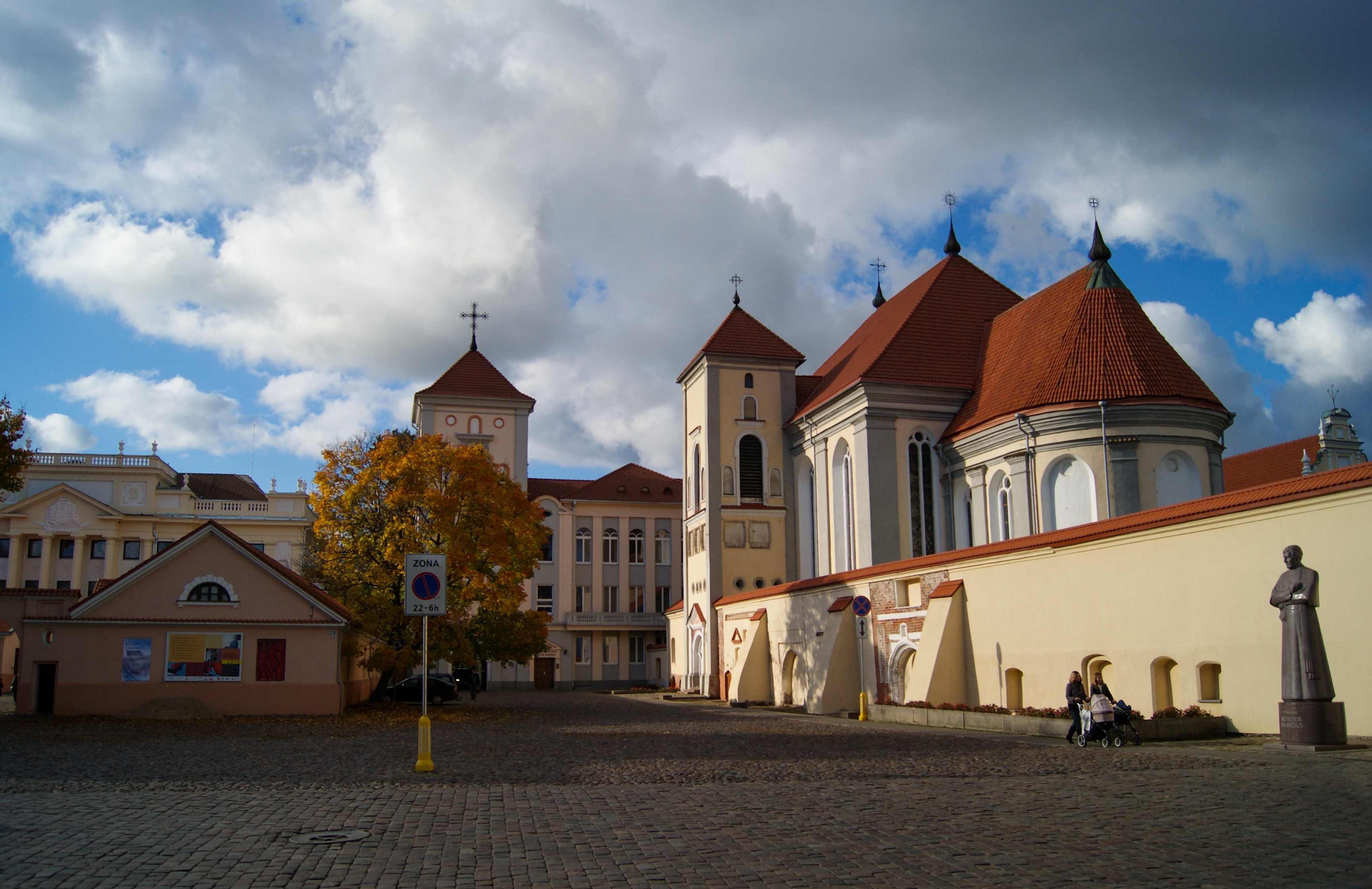 Trinity Church in Kaunas, Lithuania